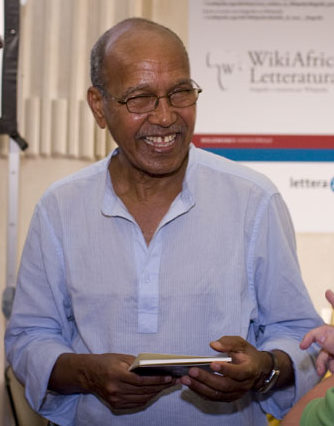 Somali author Nuruddin Farah talking with some fans at the round table organised by Lettera27 at the Festivaletteratura of Mantova in September 2008.